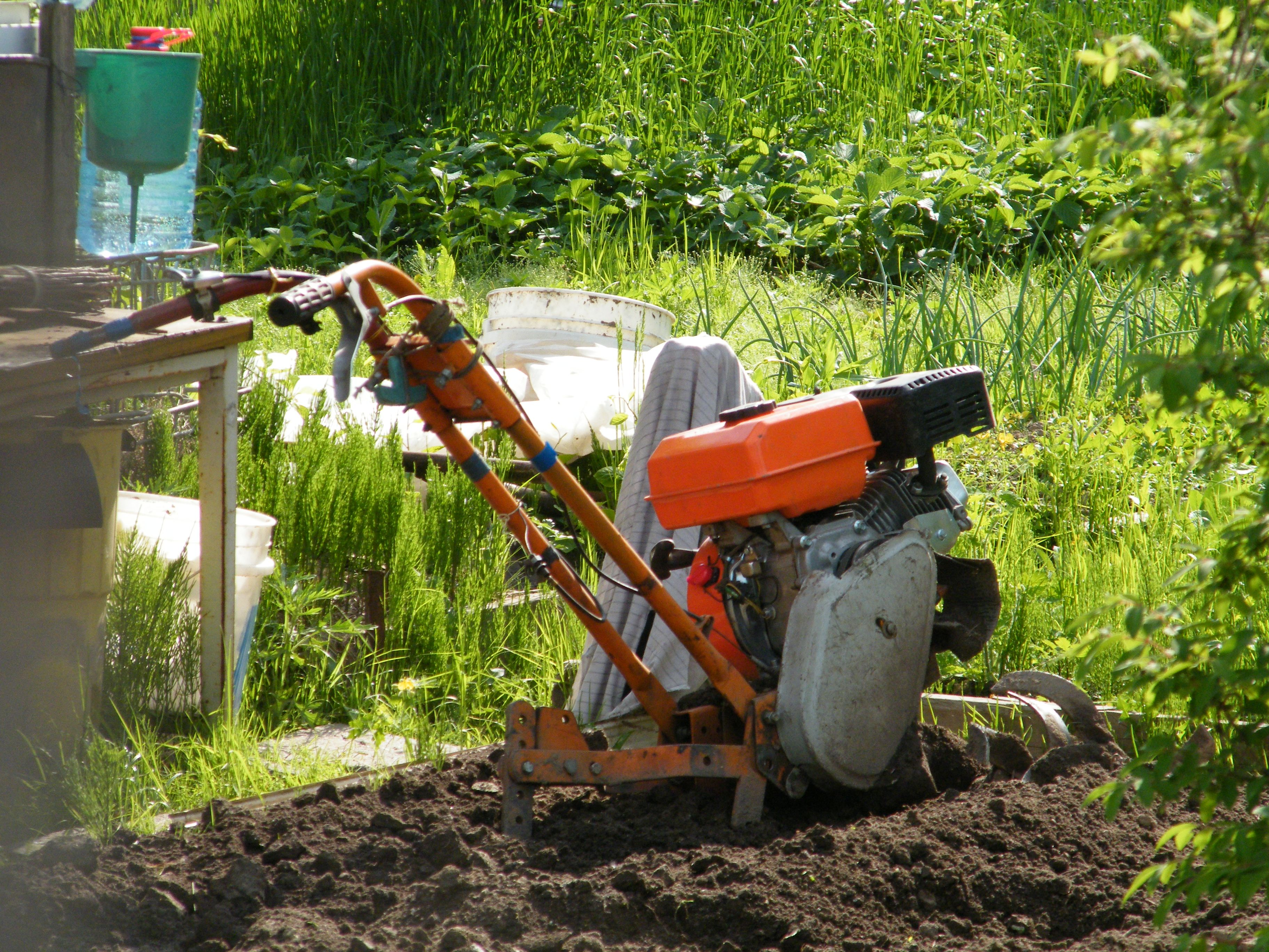 Krot from Russia